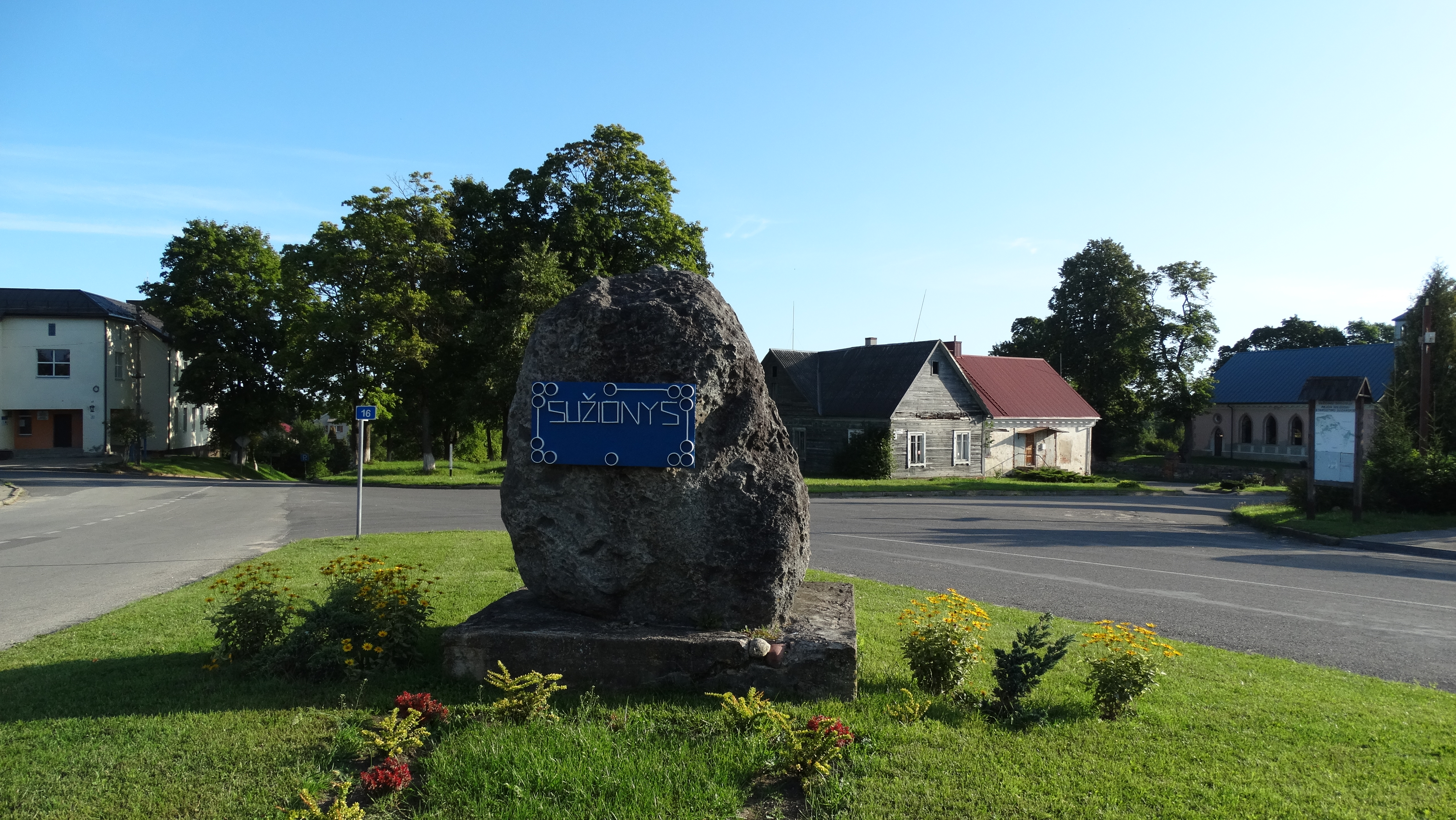 Sužionys, Vilnius District, Lithuania